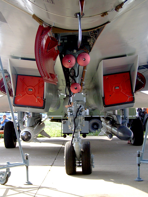 MAKS Airshow-2007. Undercarriage Su-27SK